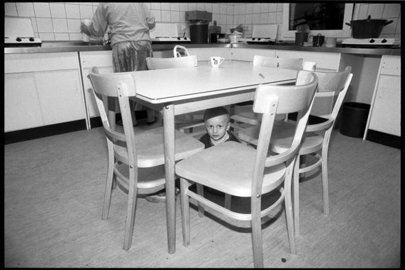 Asylum seeker in Gauting (Bavaria, Germany)